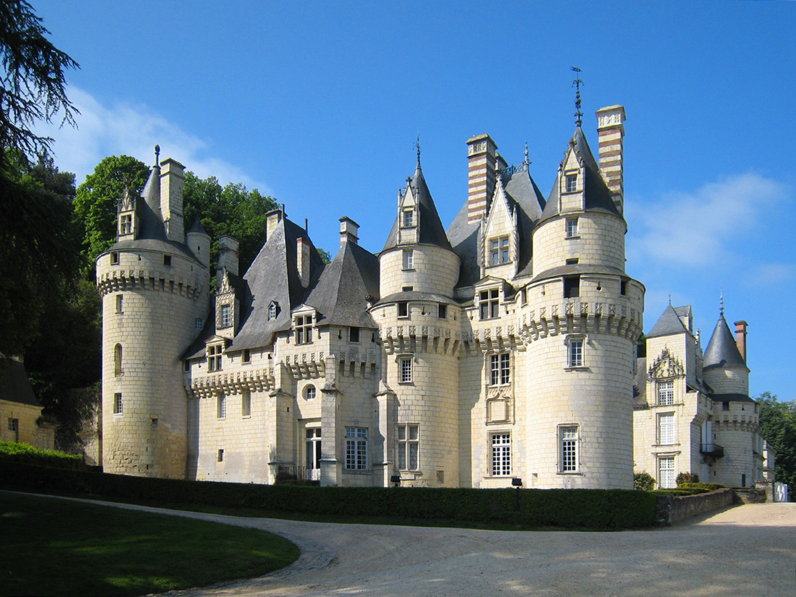 Château d'Ussé, eastern aspect